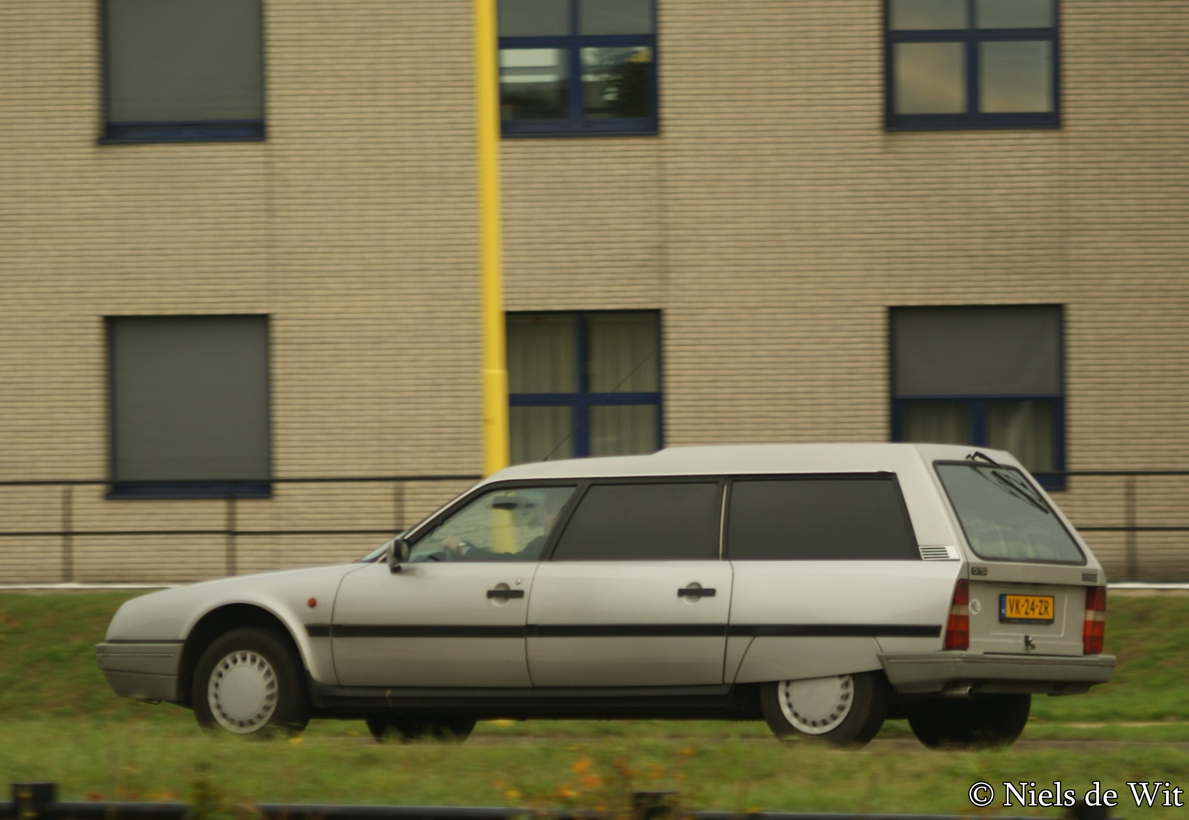 VK-24-ZR Still from the first owner!